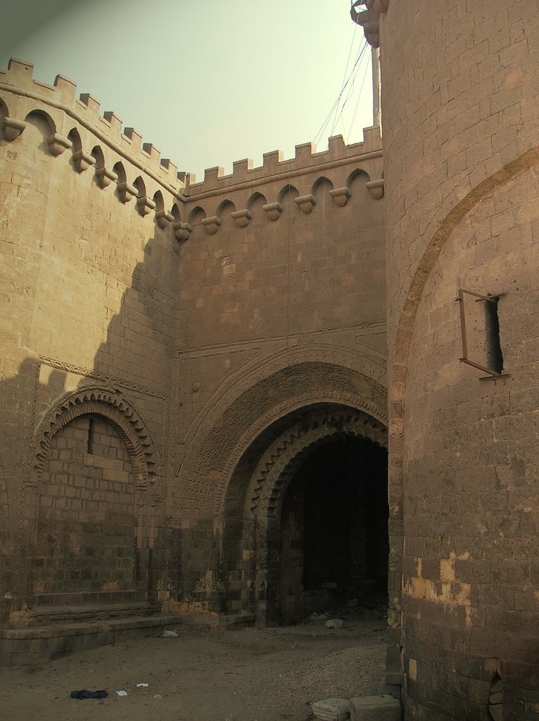 Published on Flickr in the album "Egypt: Cairo".